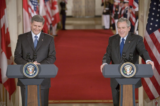 President George W. Bush and Canadian Prime Minister Stephen Harper hold a joint press conference in the East Room Thursday, July 6, 2006. "The President and I have agreed provide a more forward-looking approach focused on the environment, climate change, air quality and energy issues in which our governments can cooperate," said Prime Minister Harper. "We raised the issue of how regulatory cooperation could increase productivity, while helping to protect our health, safety, and environment."